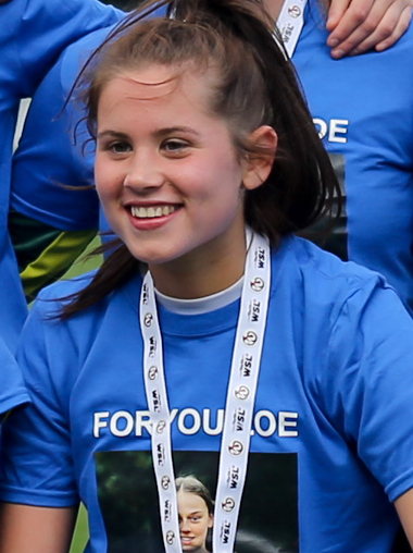 London Bees v Everton LFC, 20 May 2017